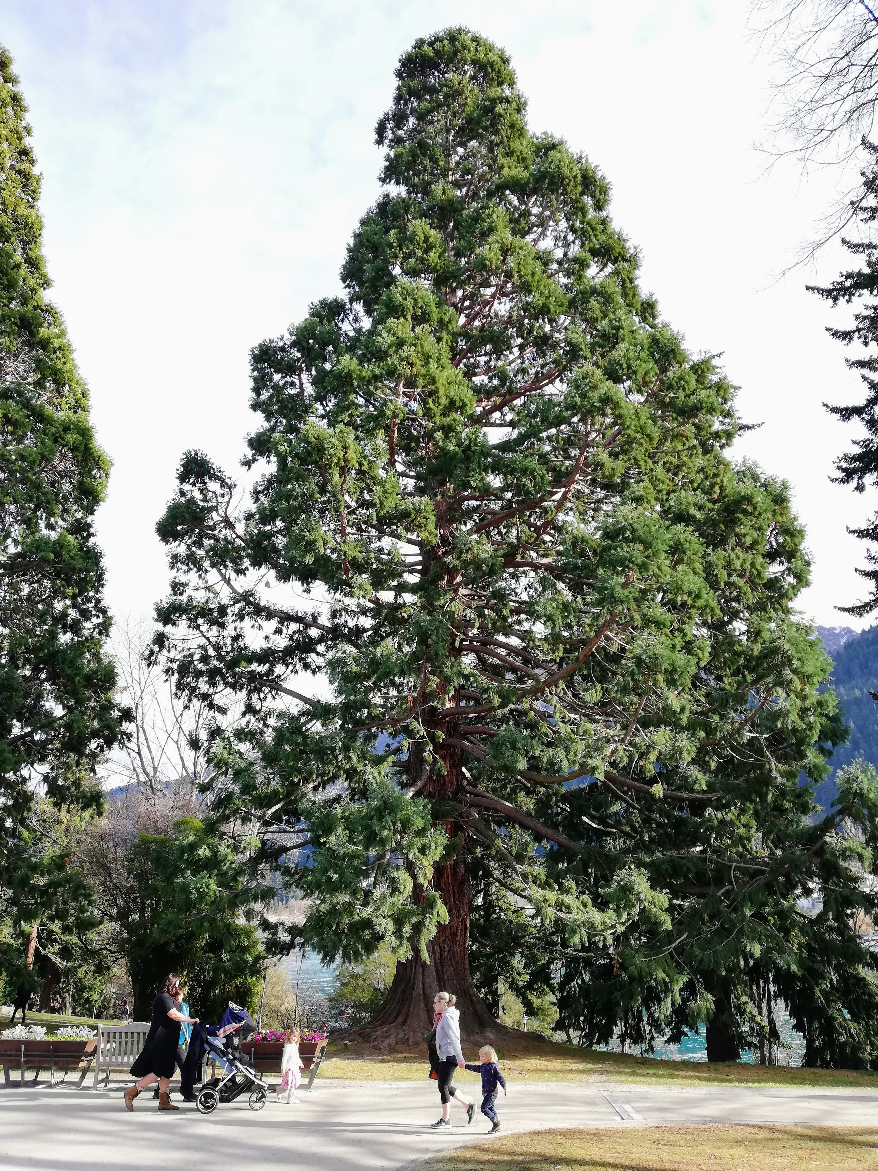 Large Sequoiadendron giganteum one of many in the Queenstown Gardens, commonly called Wellingtonia.